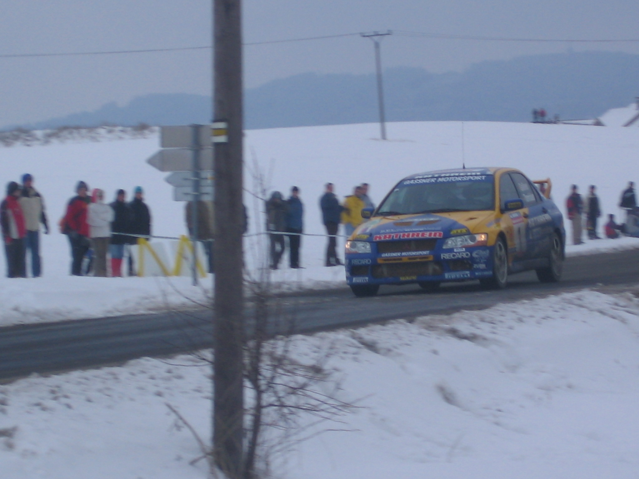 Hermann Gassner, Rally Sumava 2005